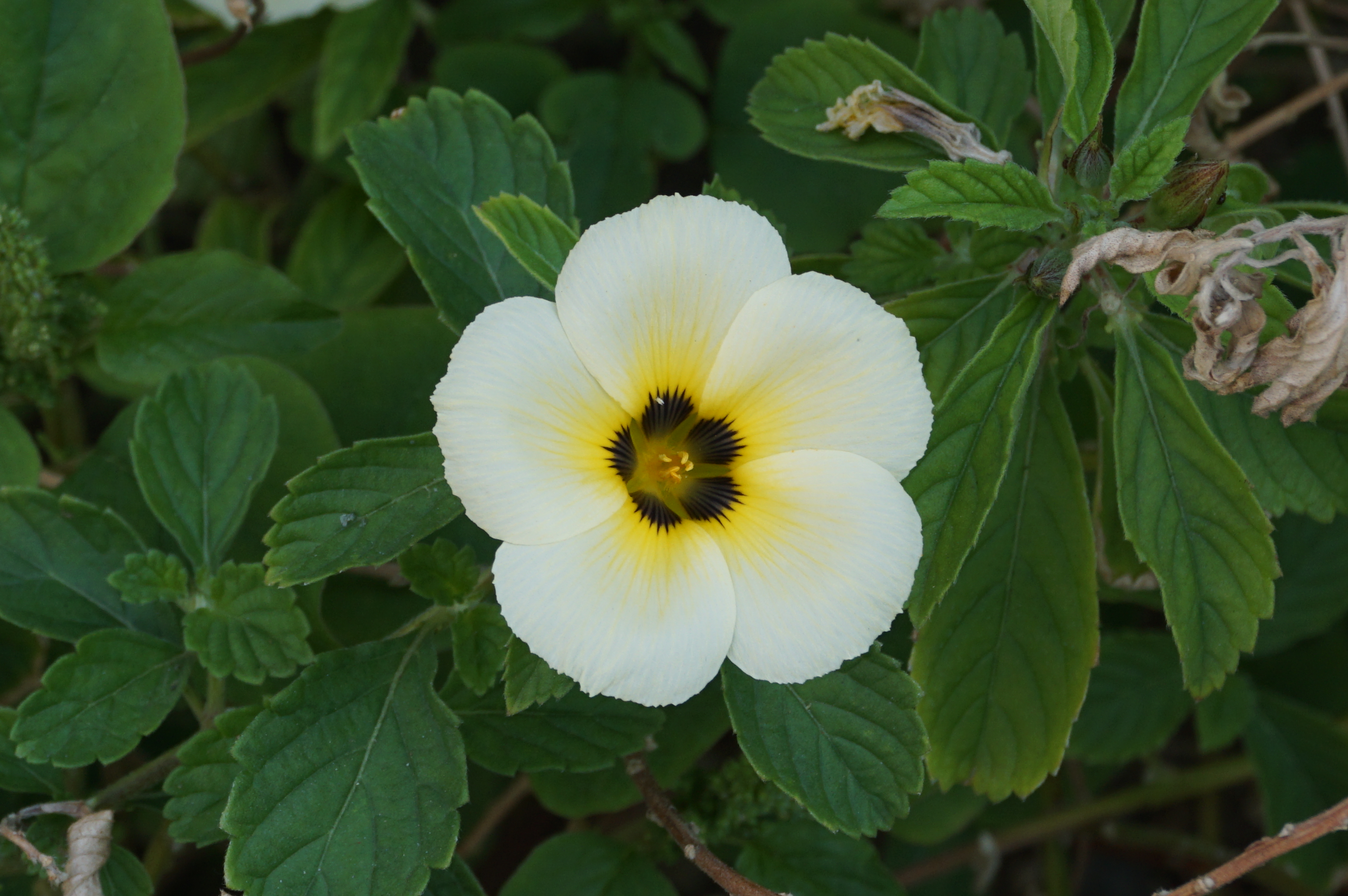 Turnera subulata , Kerala, India